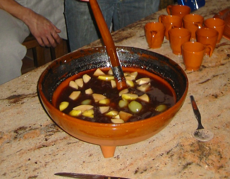 Queimada is a typical drink from Galicia (Spain)